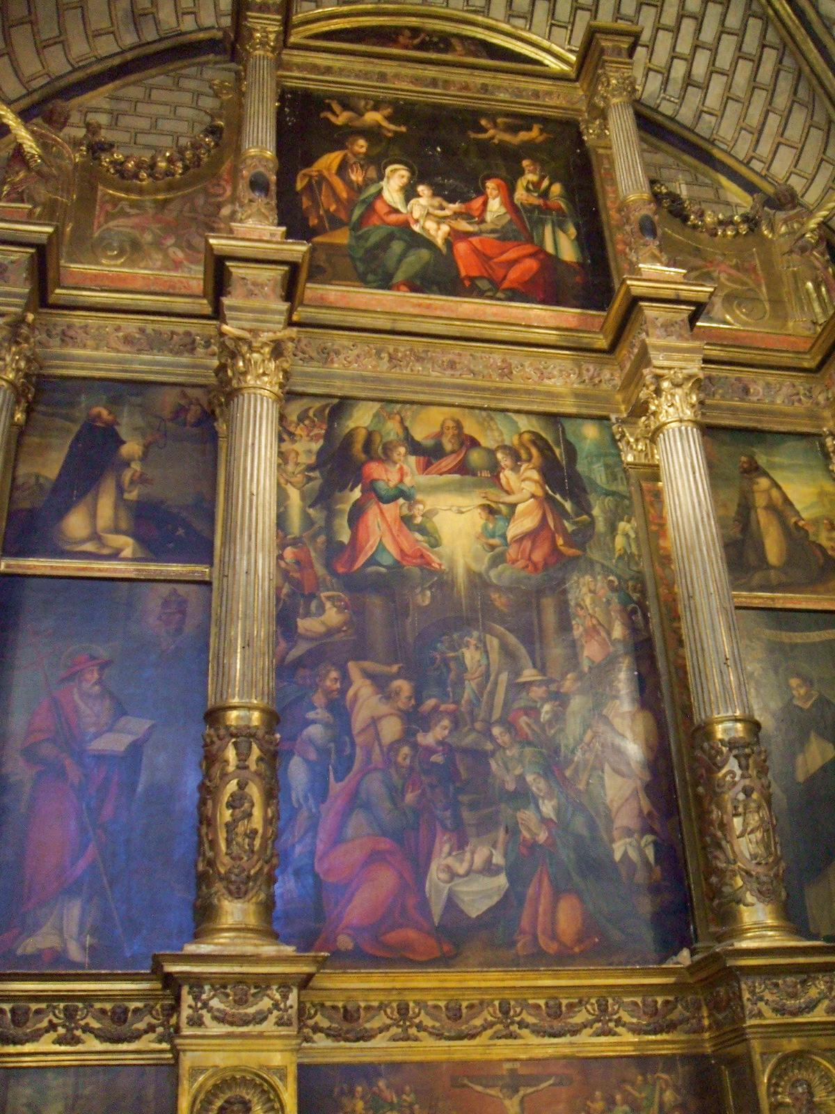 Capilla del Nacimiento, en la Catedral del Salvador (La Seo) de Zaragoza (Aragón, España). Lienzos de Roland de Mois.